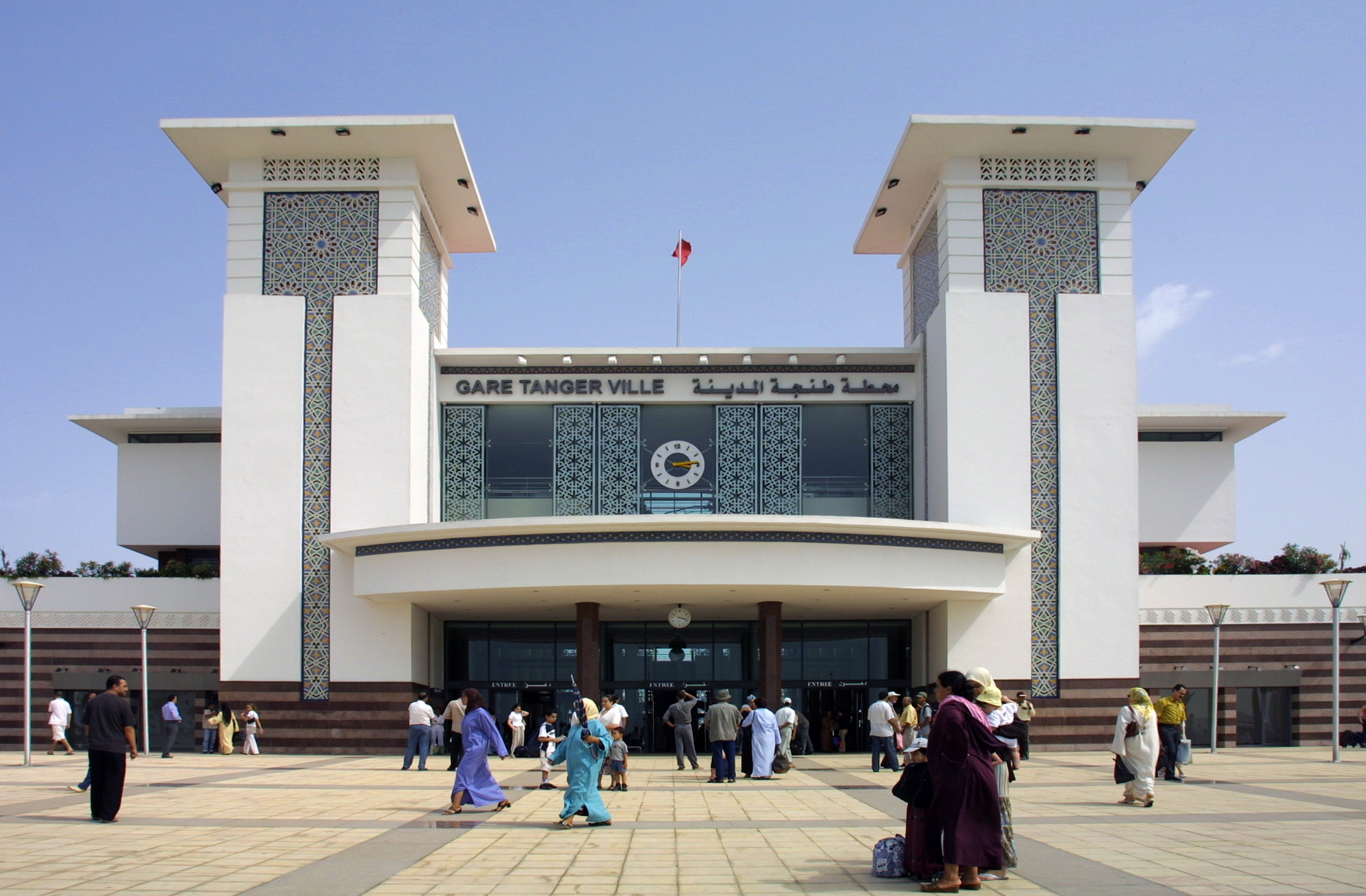 Tanger Railway Station, Morocco.